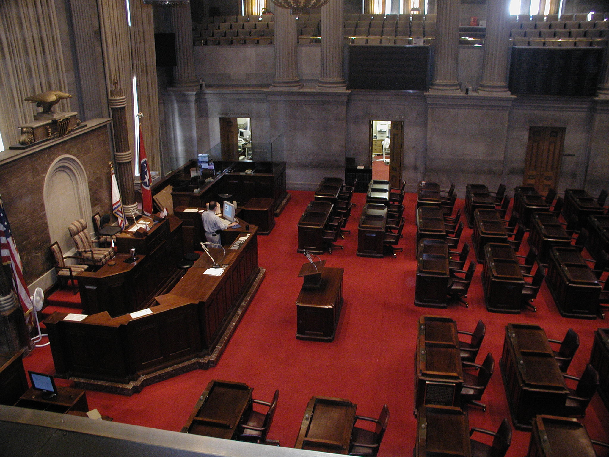 House Chambers in the Tennessee State Capitol.